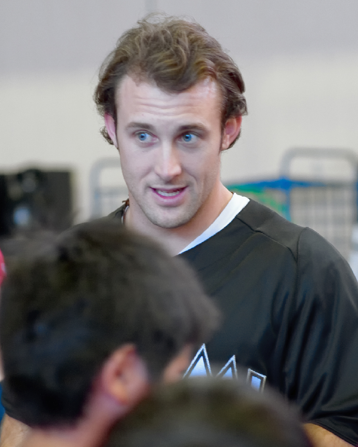 12/5/2011 - Bryan Petersen, a Major League Baseball outfielder for the Miami Marlins, answers questions from participants during a baseball clinic held at the Yokota Teen Center, Dec. 3, 2011. The Marlins, along with Billy the Marlin and Marlins Mermaids, held activities such as a baseball clinic, a dance clinic and meet and greets, sponsored by Armed Forces Entertainment. (U.S. Air Force photo/Osakabe Yasuo)